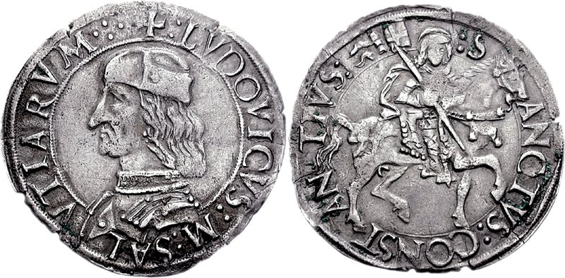 Italy, Carmagnola. Lodovico II di Saluzzo. 1475-1504. AR Cavallotto (2.86 g, 11h). Armored bust left, wearing berretto St. Constantius on horseback right, holding banner. Cf. CNI II 60/43 (for obv./rev. type); Biaggi 566. Good VF, toned, hairline flan crack.